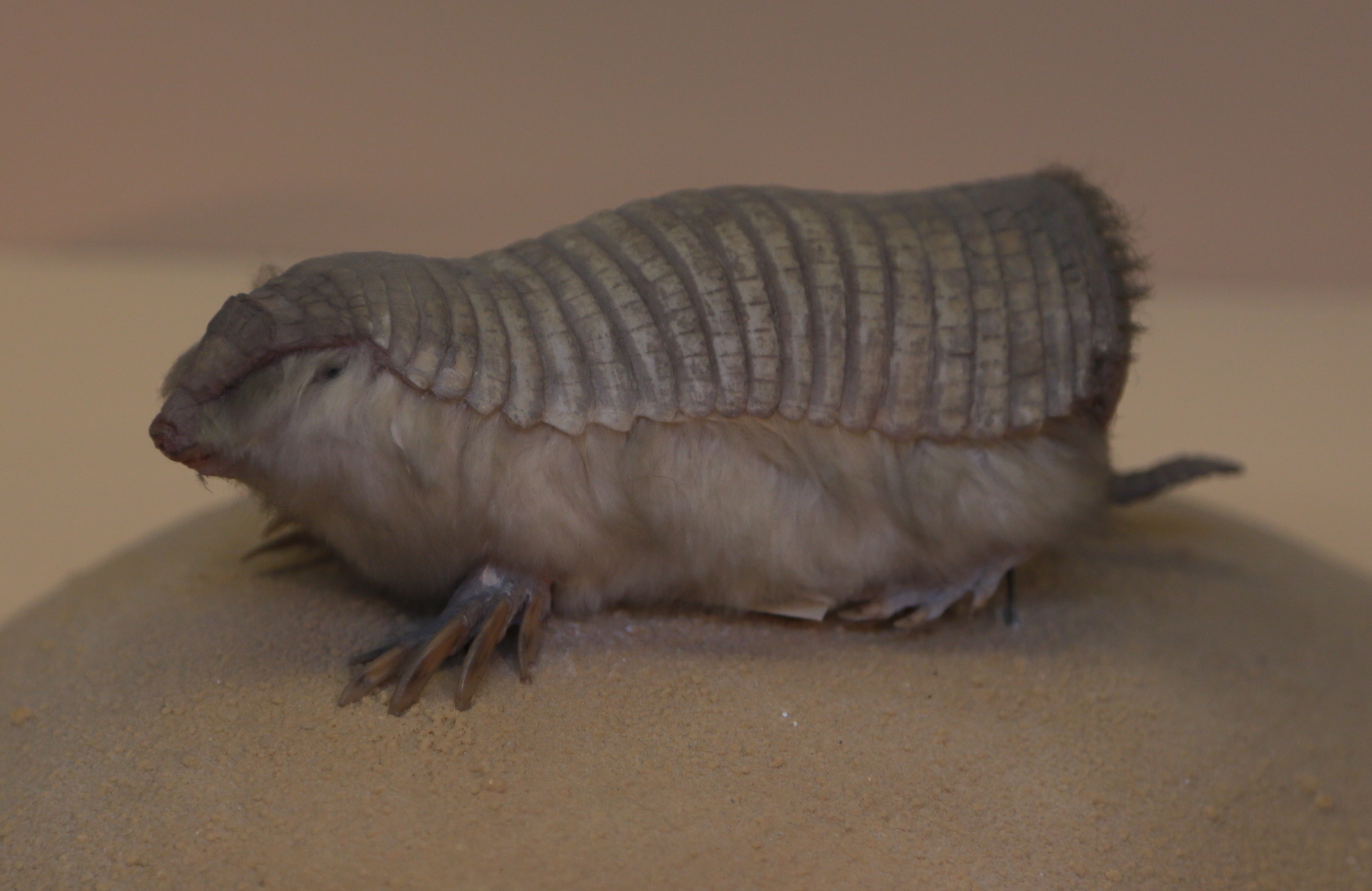 Pink fairy armadillo (Chlamyphorus truncatus), Natural History Museum, London, Mammals Gallery